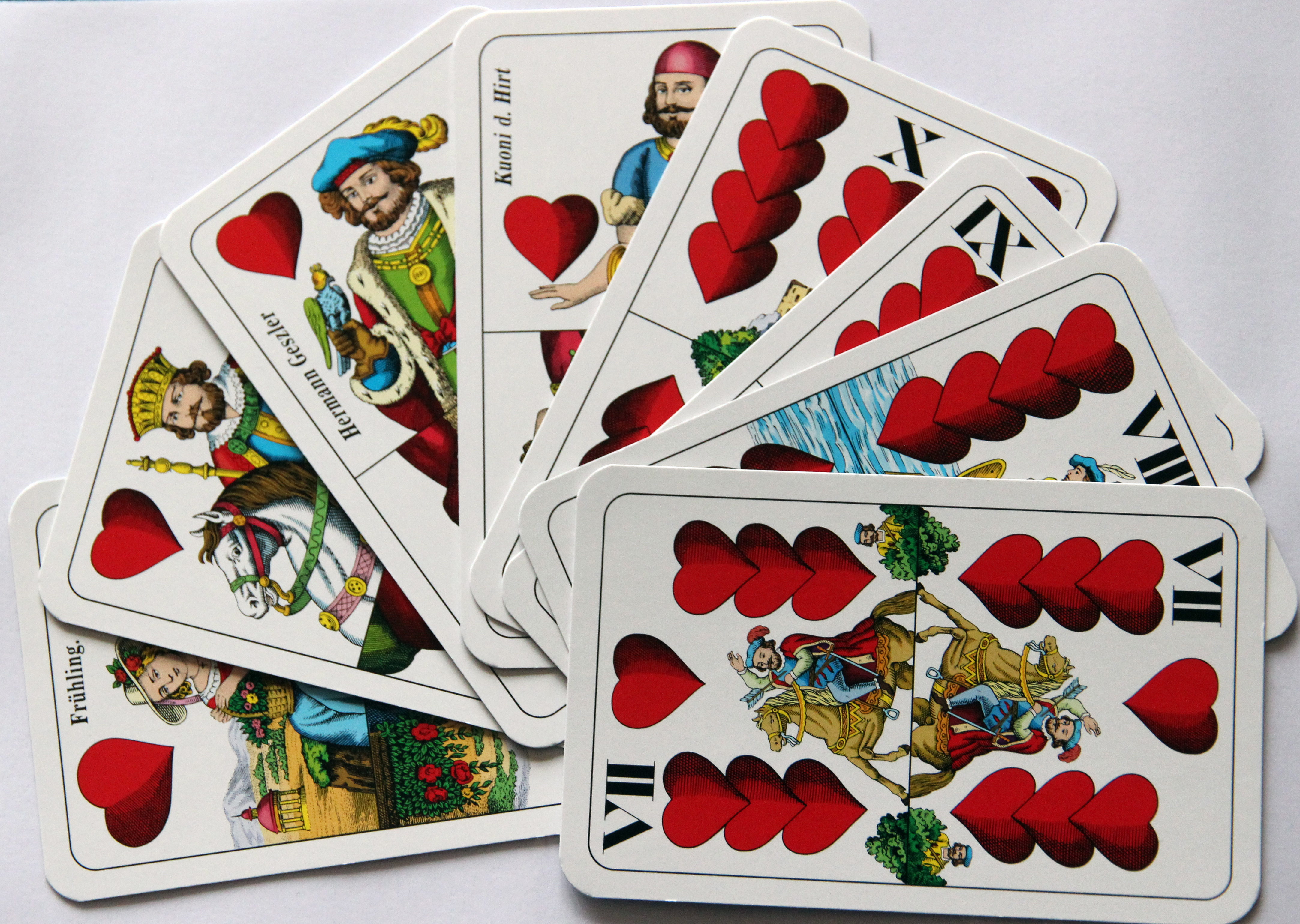 Suit of Hearts from a traditional William Tell pattern pack The original artist of the card design is József Schneider, 19th century (source: Daily News Hungary: From Germany to Hungary, the story of tell cards, by Gergely Lajtai-Szabó, 15 October 2017).